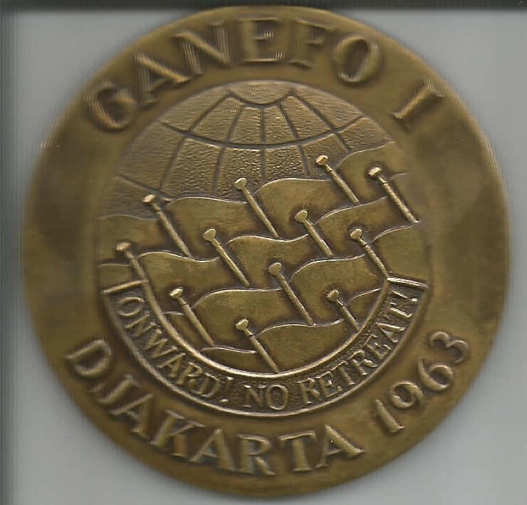 Ganefo Bronze medal for Argentinian Water Polo Team. Donated by Héctor Ernesto Urabayen